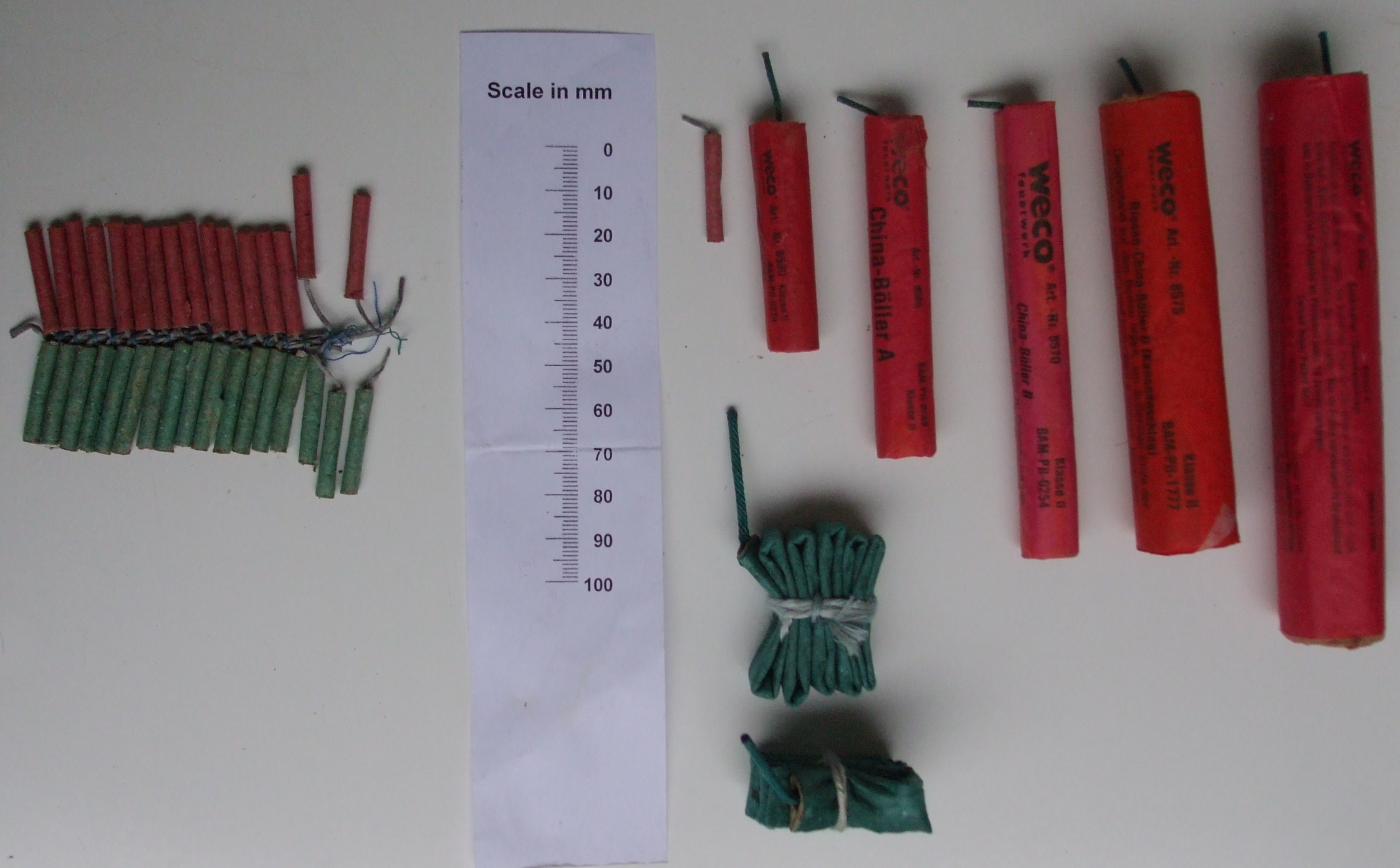 A few firecrackers, a little too long, Weco.